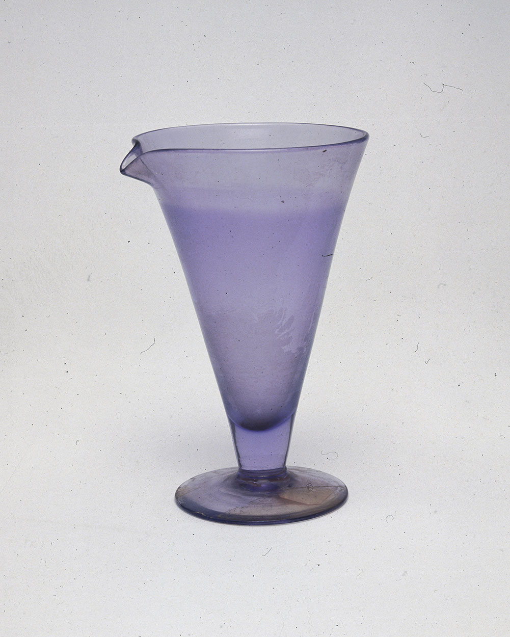 Marie Curie (1867-1934) was a Polish-French physicist, the first woman scientist of international distinction. She won two Nobel Prizes, the first for physics in 1903 for her work, with others, on radioactivity, and the second one for chemistry in 1911 for her discovery of polonium and radium.